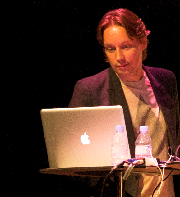 Joris de Man giving a talk about the interactive music in Killzone at Game Music Connect 2013.